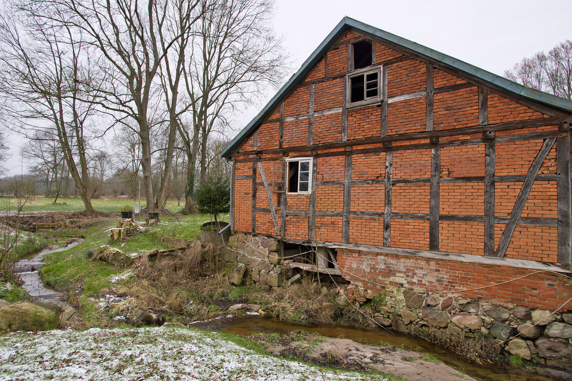 Former watermill at the village Thunpadel near Dannenberg (Elbe).